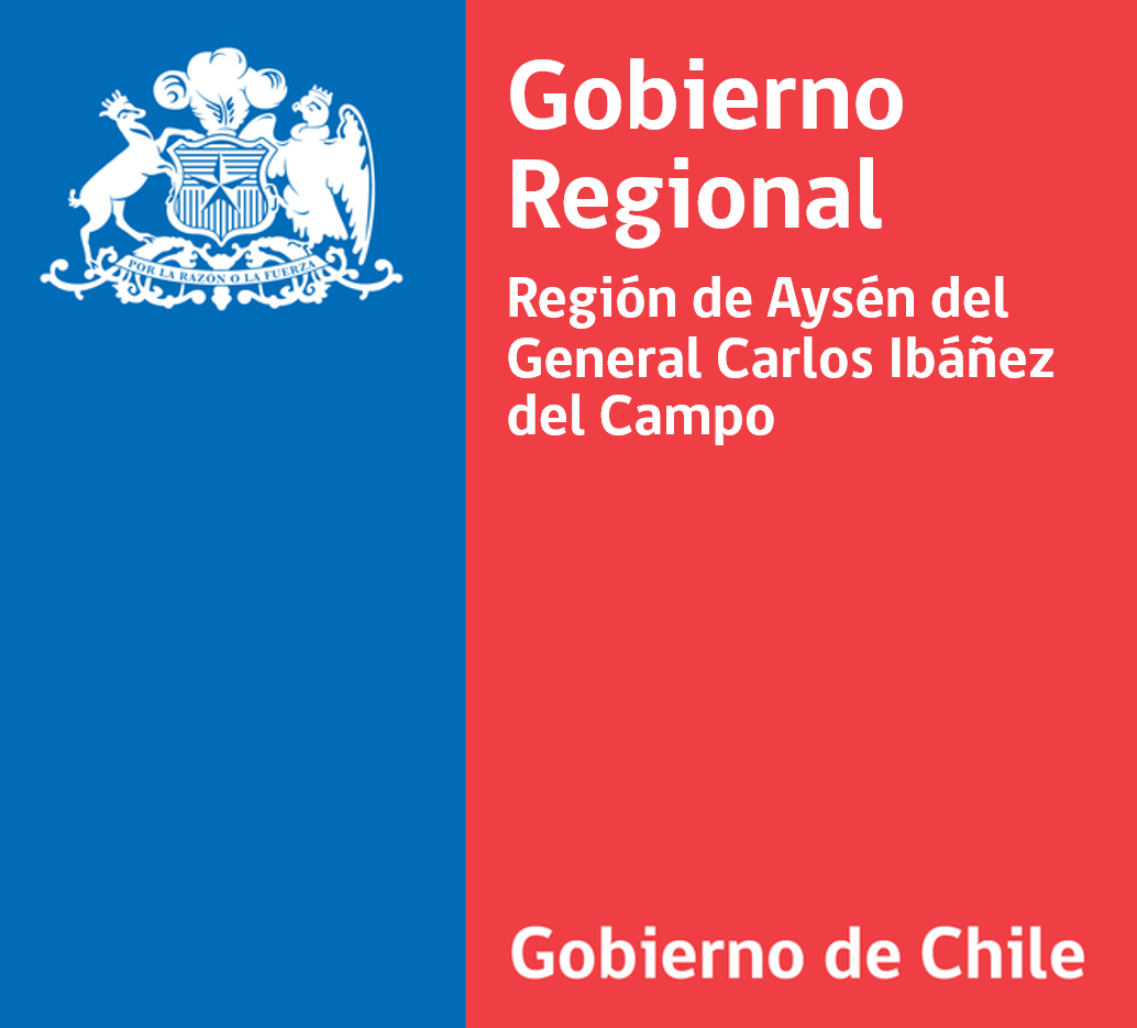 Institutional logo of the Government to the Regional Government of Aysén of General Carlos Ibáñez del Campo.